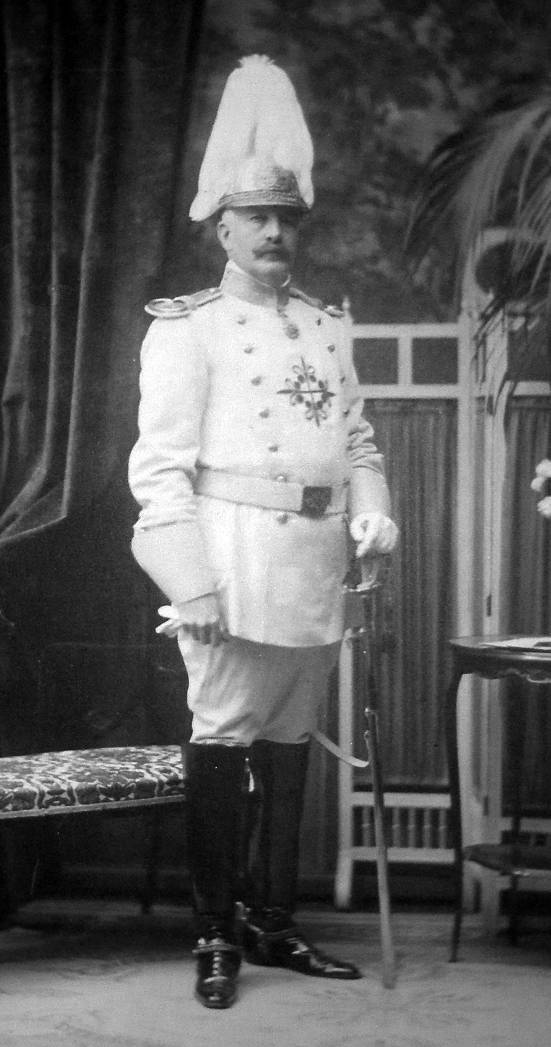 Photographical portrait of a knight of the Order of Alcántara